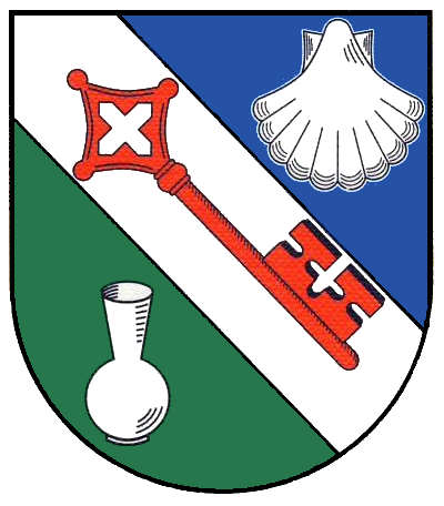 Coat of Arms of Orscholz, Part of Mettlach